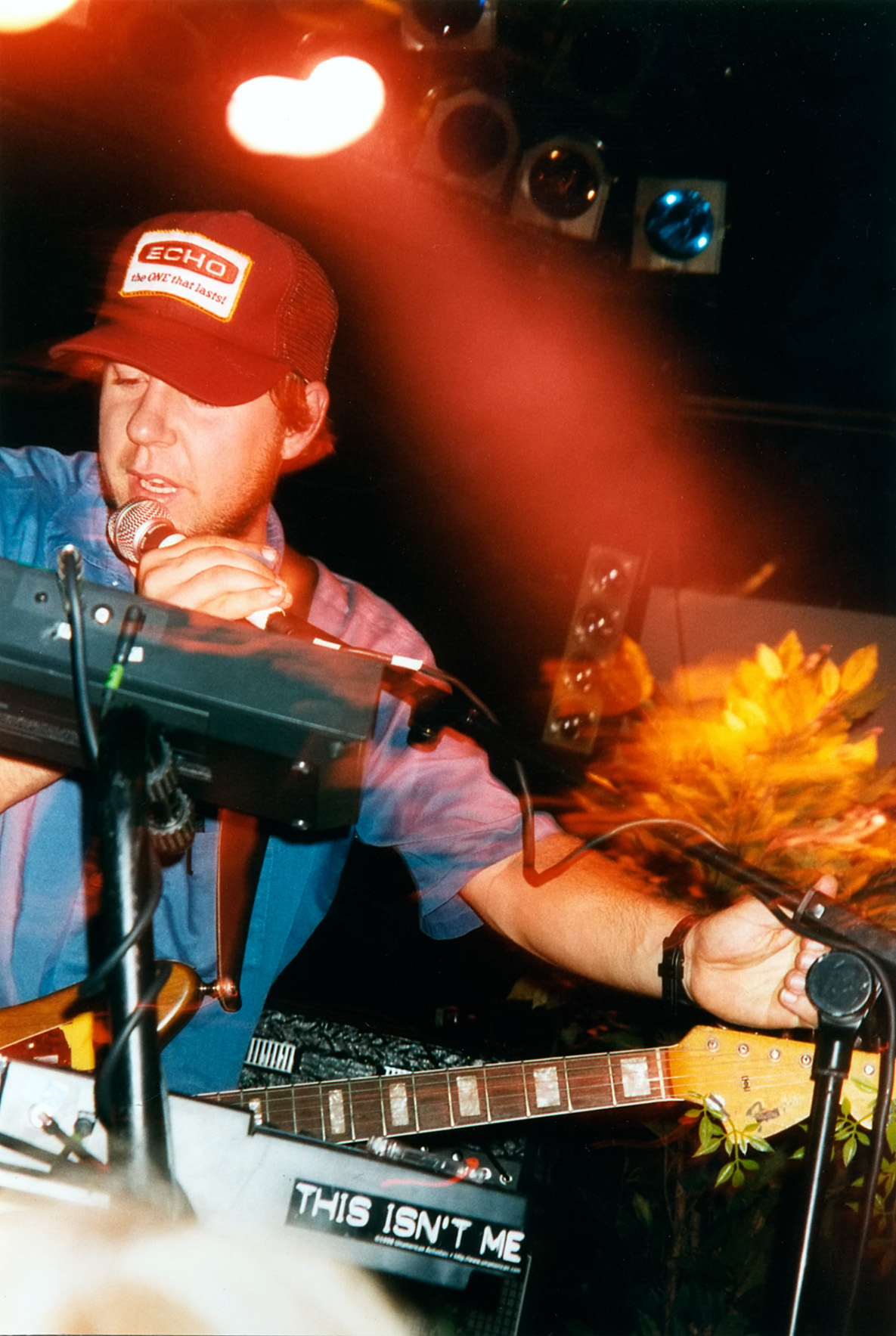 Jason Lytle on stage with Grandaddy at the London Astoria 2